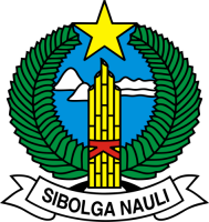 Shield of the city of Sibolga (Indonesia)